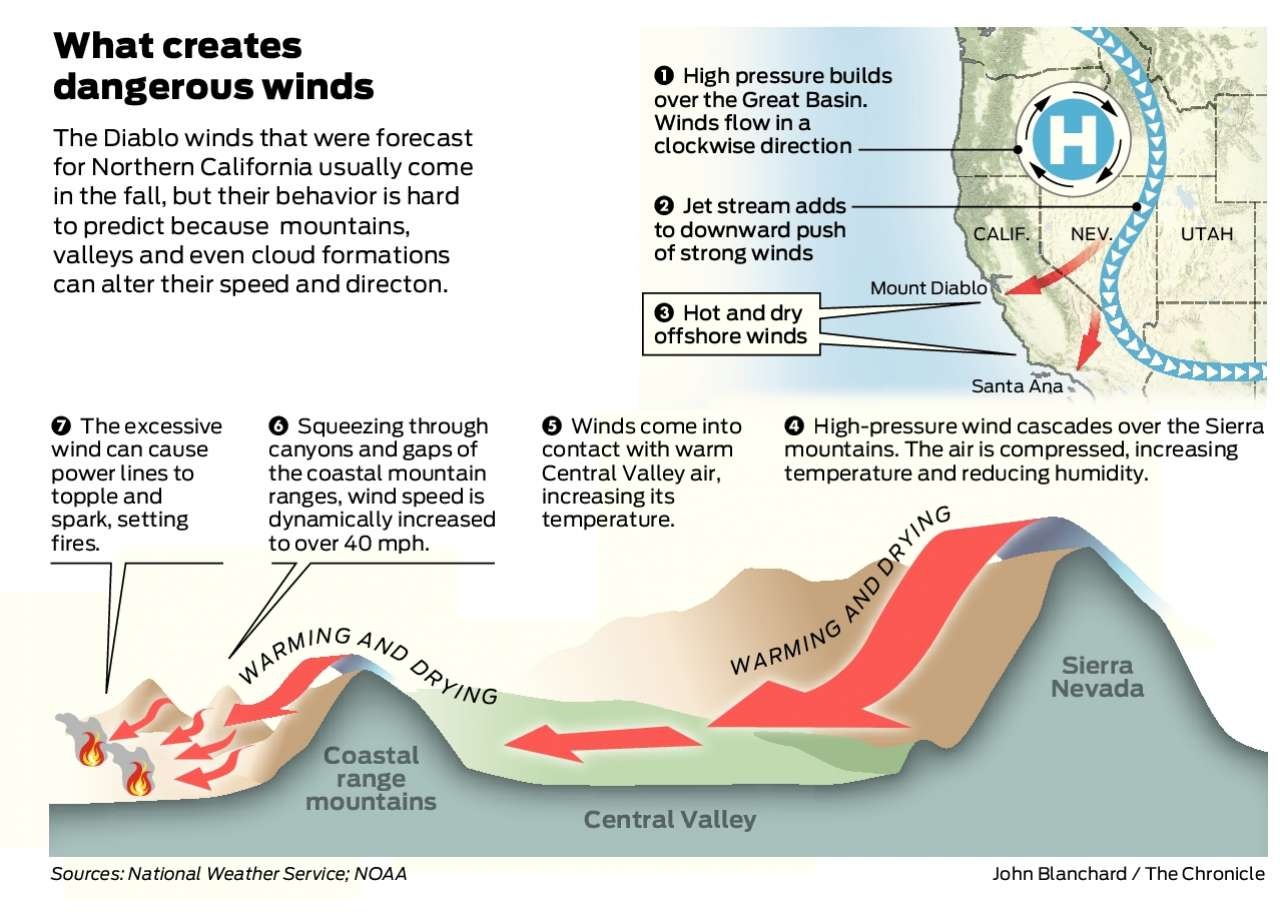 The Diablo winds a the result of cold weather east of California over the Great Basin, mostly in Nevada and Utah,. Cool, high-pressure air hanging above the high desert runs in contrast to a warmer low-pressure system along the Pacific Coast, creating the pressure differential that’s the recipe for Diablo winds. It is first a katabatic wind descending the Sierra Nevada, then passing thru the Central Valley and finally passing over the Coastal mountains north of San Francisco it becomes a foehn wind on the other side of them.